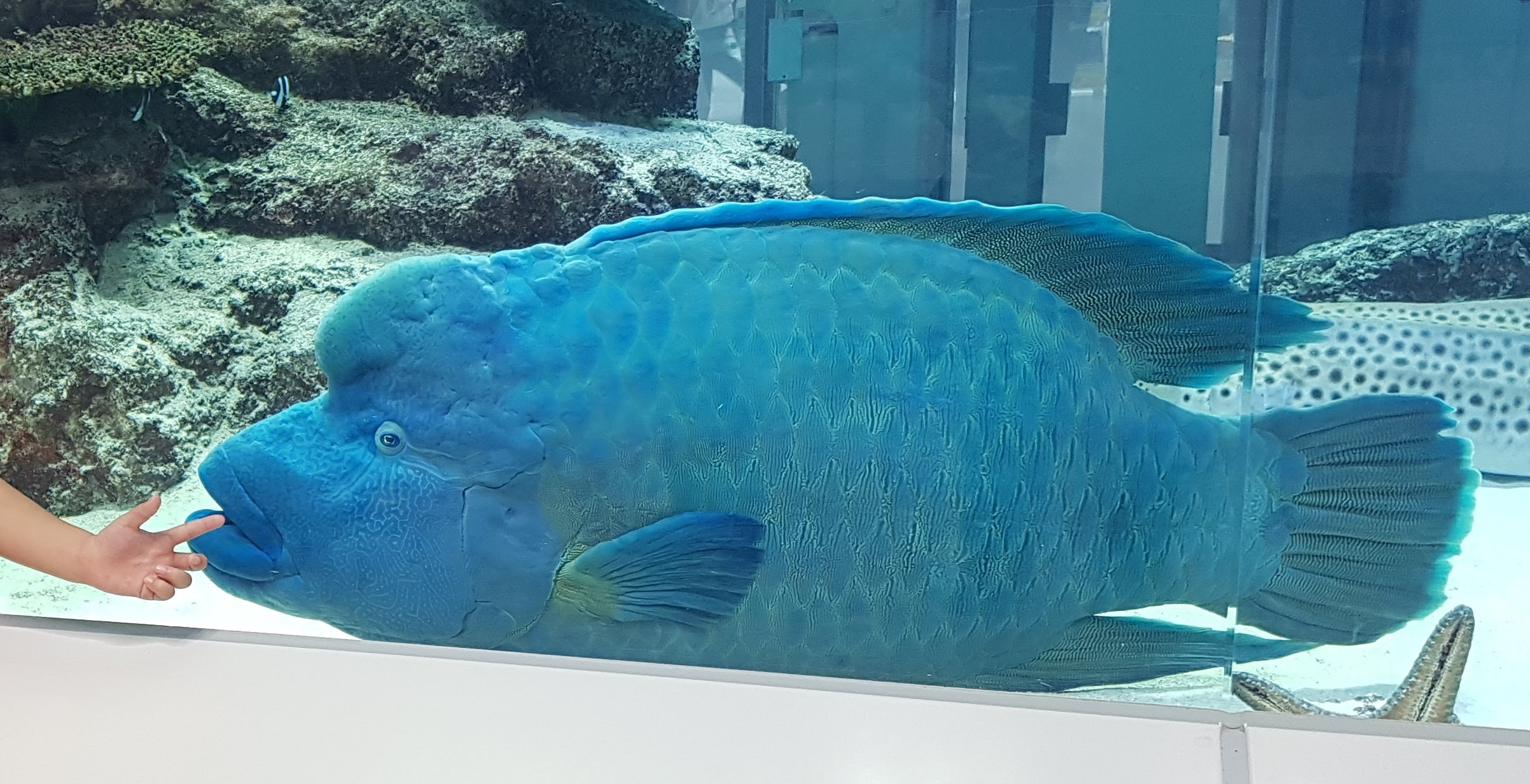 Cheilinus undulatus in an aquarium of the AEON MALL Okinawa Rycom